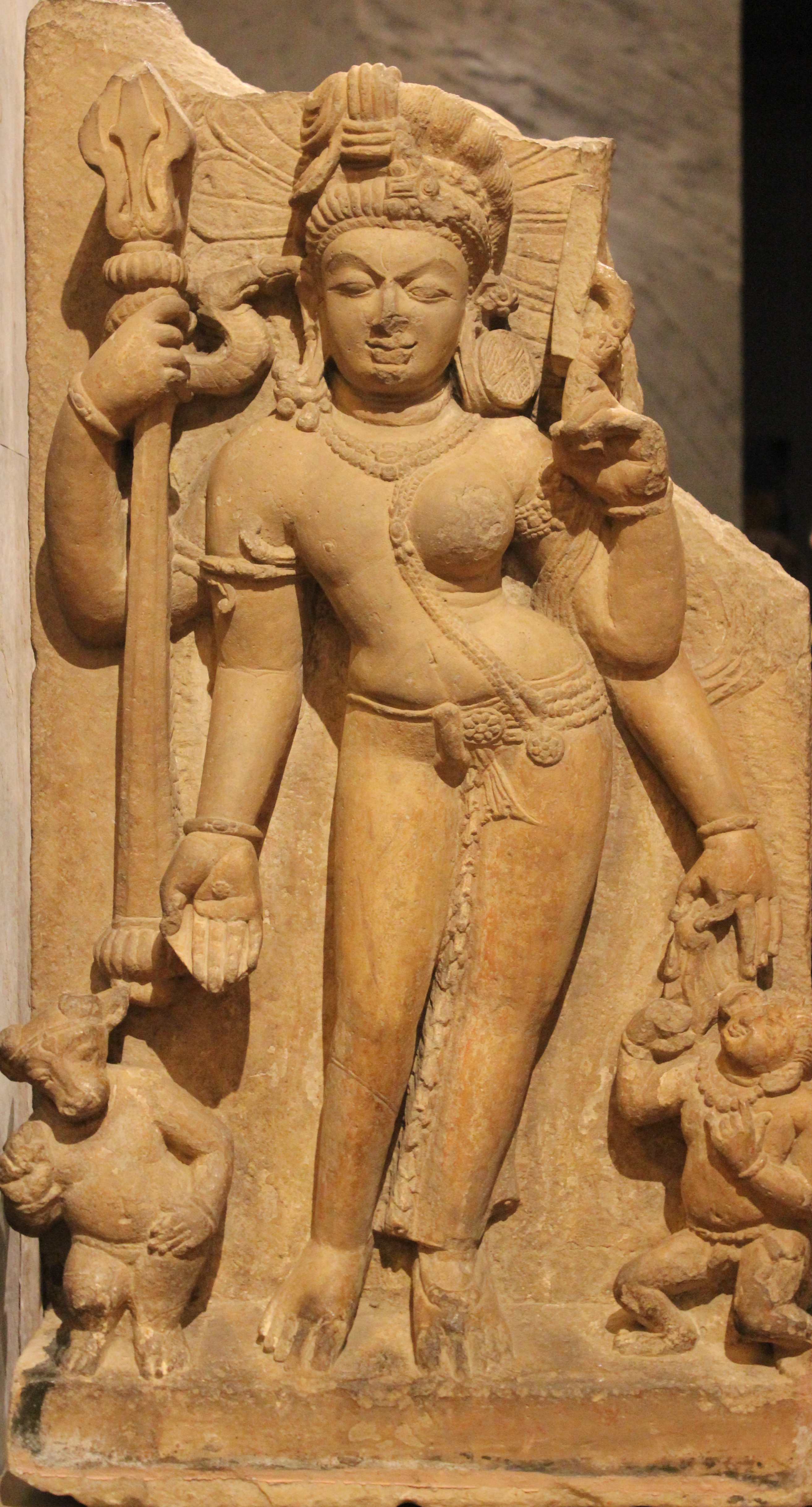 half-man and half-women. this sculpture is sculpted from both the sides. this is probably the front.